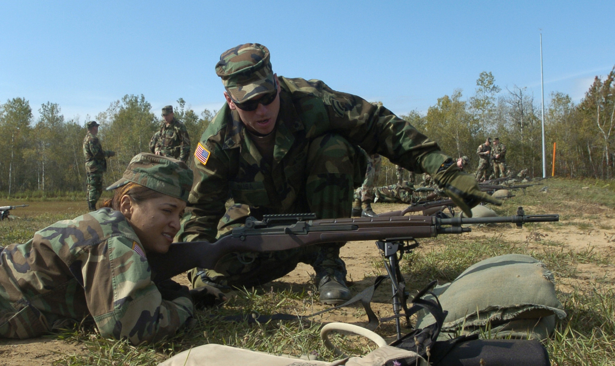 photo by Staff Sgt. Raymond Drumsta, January 13, 2005: Sniper-trained Spc. Richard Busa, 173rd LRS(D), right, gives marksmanship pointers to Spc. Ana Perez, 272nd Chemical Company, left, at Fort Drum's Range 21, before the Soldiers deployed to Iraq with the 42nd Infantry Division. image